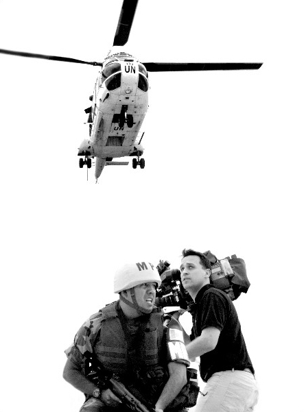 Riot over Pétion-Ville.